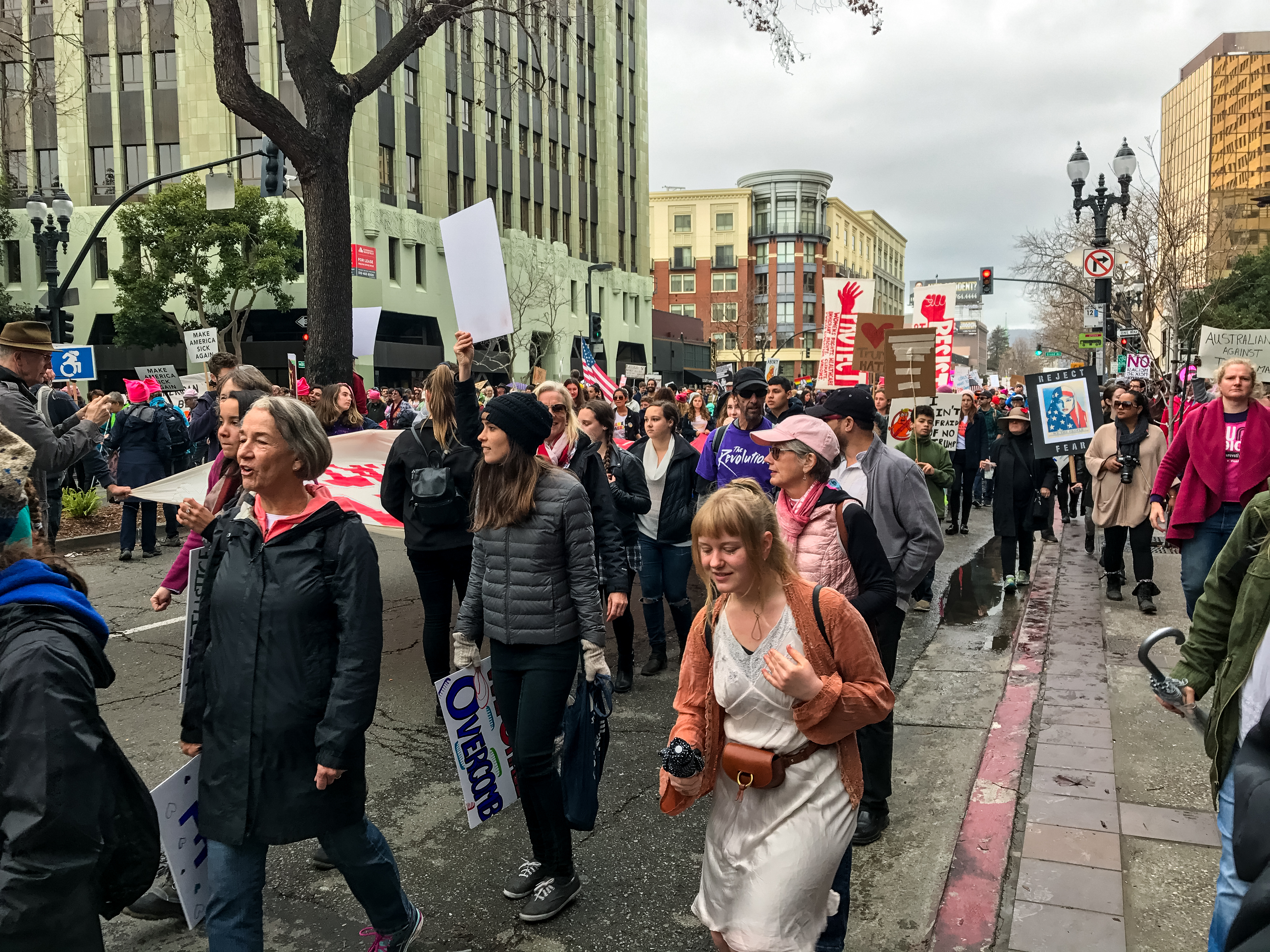 Oakland Women's March, 1/21/17